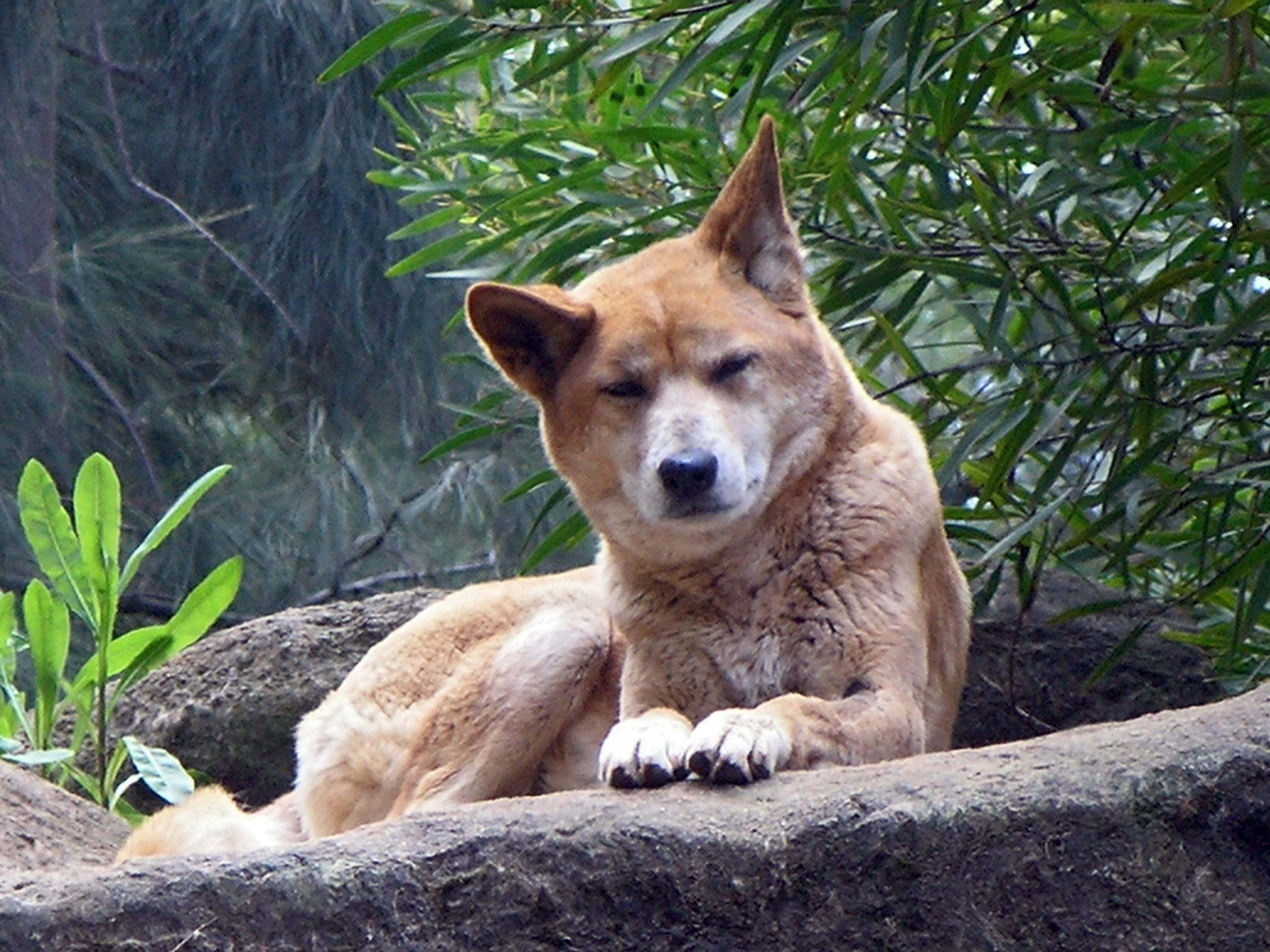 Dingo at Perth Zoo, taken in September 2005